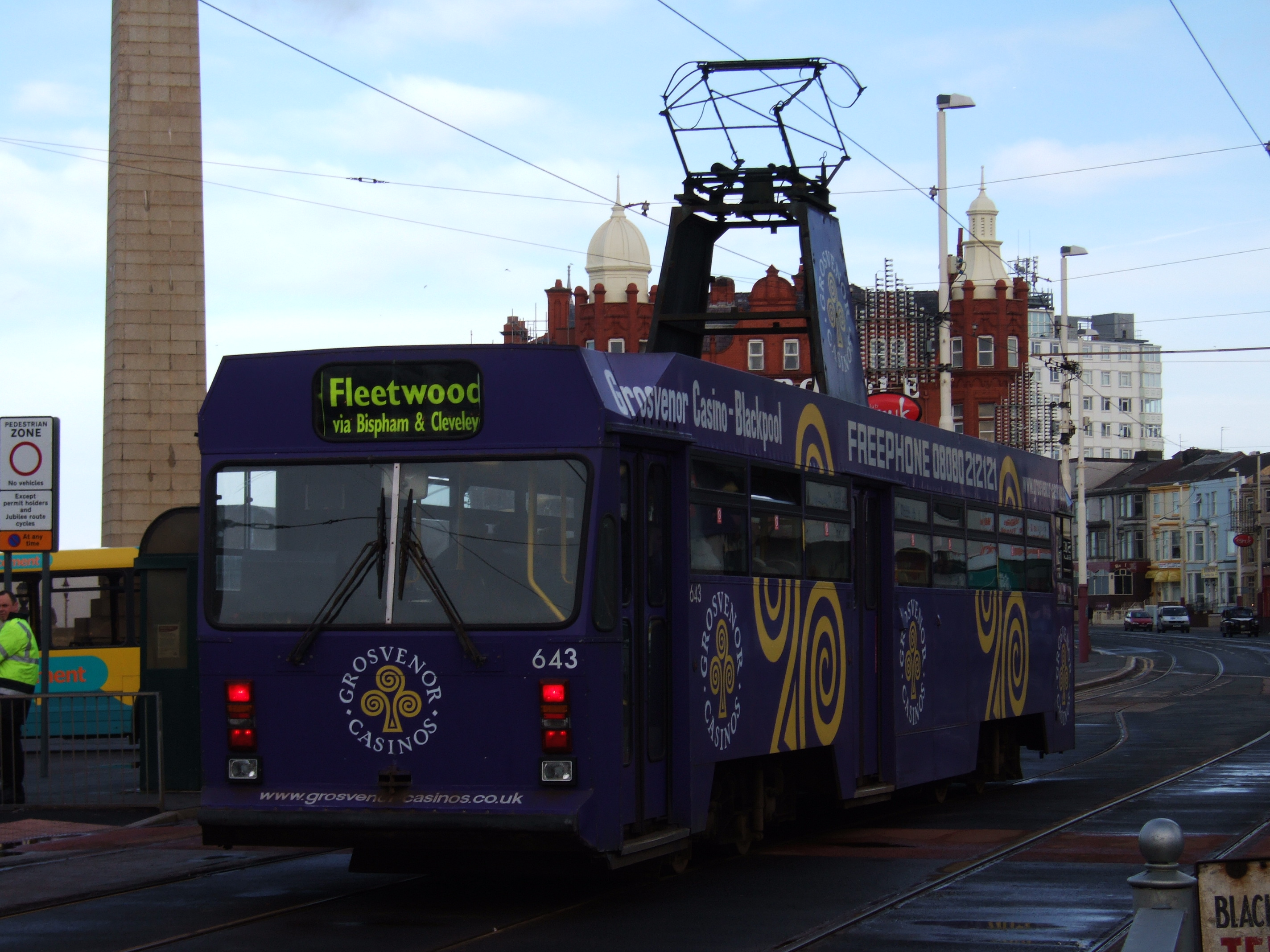 A Blackpool Tram